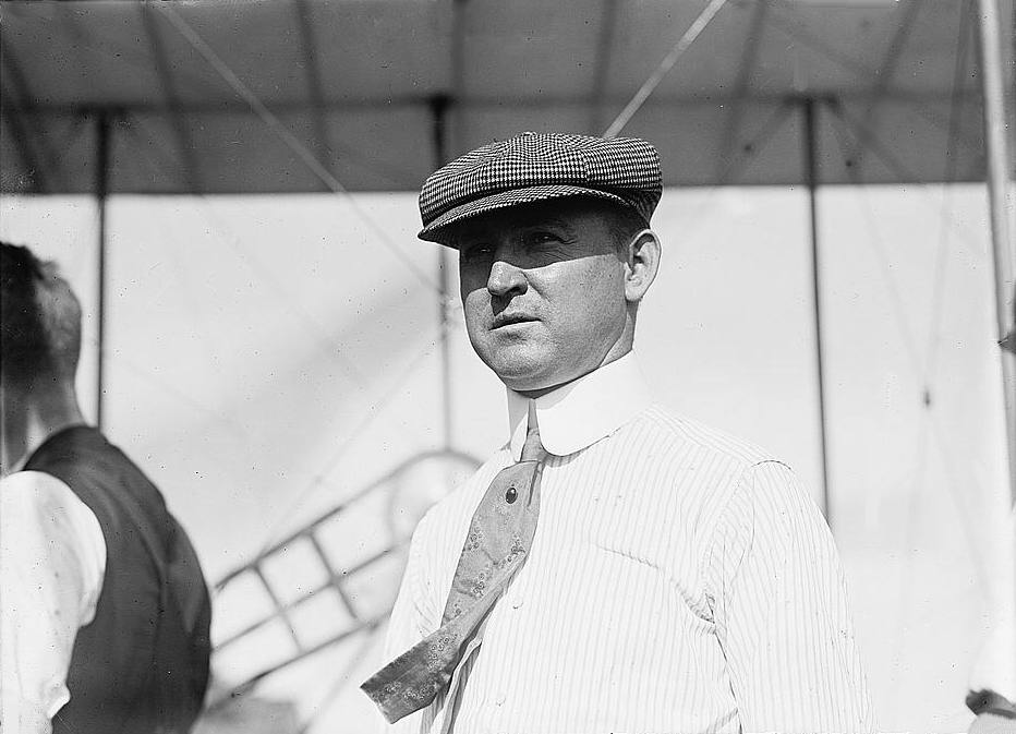 W.R. Kimball (LOC) Bain News Service,, publisher. Wilbur R. Kimball in 1911 [between ca. 1910 and ca. 1915] 1 negative : glass ; 5 x 7 in. or smaller. Notes: Title from data provided by the Bain News Service on the negative. Photo shows Wilbur R. Kimball (d. 1940), aviation pioneer, inventor, airplane builder and pilot who was also the Secretary of the Aeronautic Society of New York. (Source: Flickr Commons Project, 2009 and Forms part of: George Grantham Bain Collection (Library of Congress). Subjects: Air pilots Format: Glass negatives. Repository: Library of Congress, Prints and Photographs Division, Washington, D.C. 20540 USA, General information about the Bain Collection is available at Persistent URL: Call Number: LC-B2- 2218-13